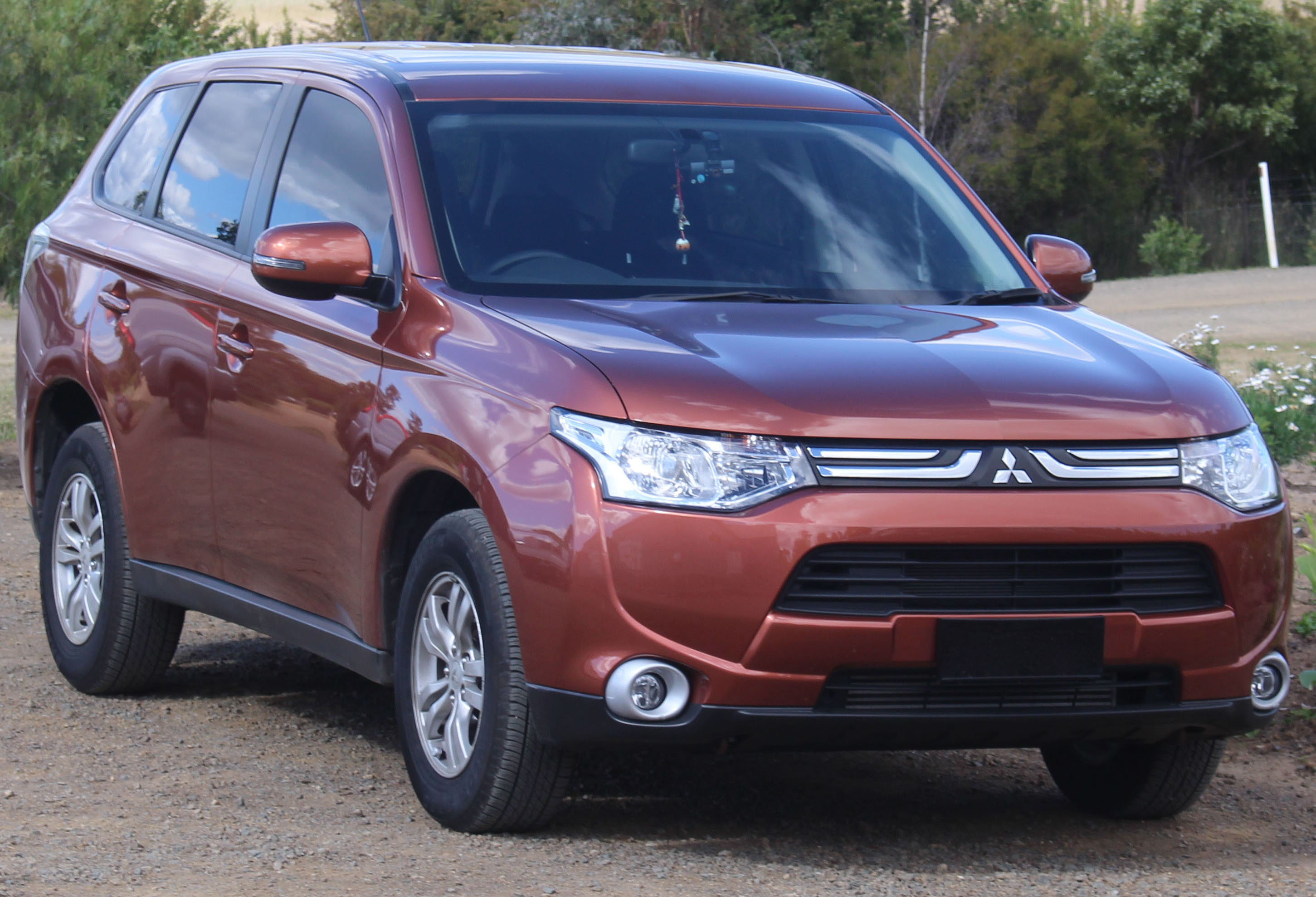 2013 Mitsubishi Outlander (ZJ MY13) LS wagon, photographed in Richmond, Tasmania Australia